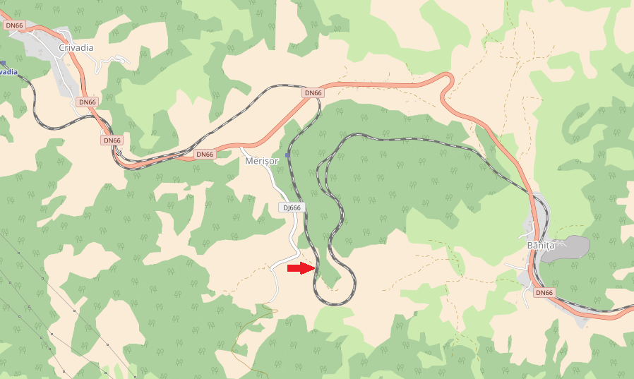 Merisor derailment location